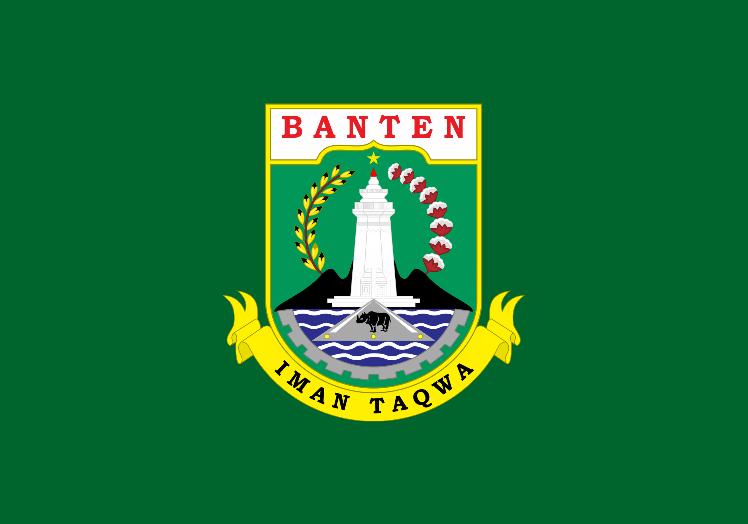 Flag of Banten, See legal regulation about the flag.